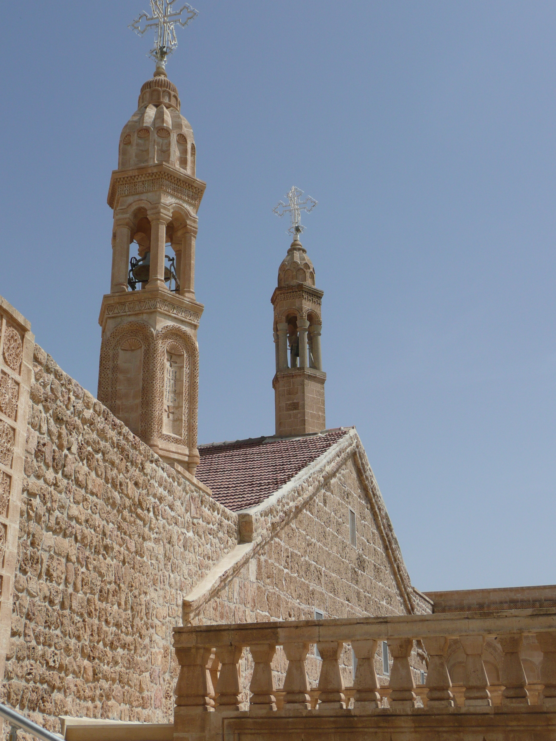 Photographs from Deyrulumur (Mor Gabriel Monastery) , Midyat, Turkey